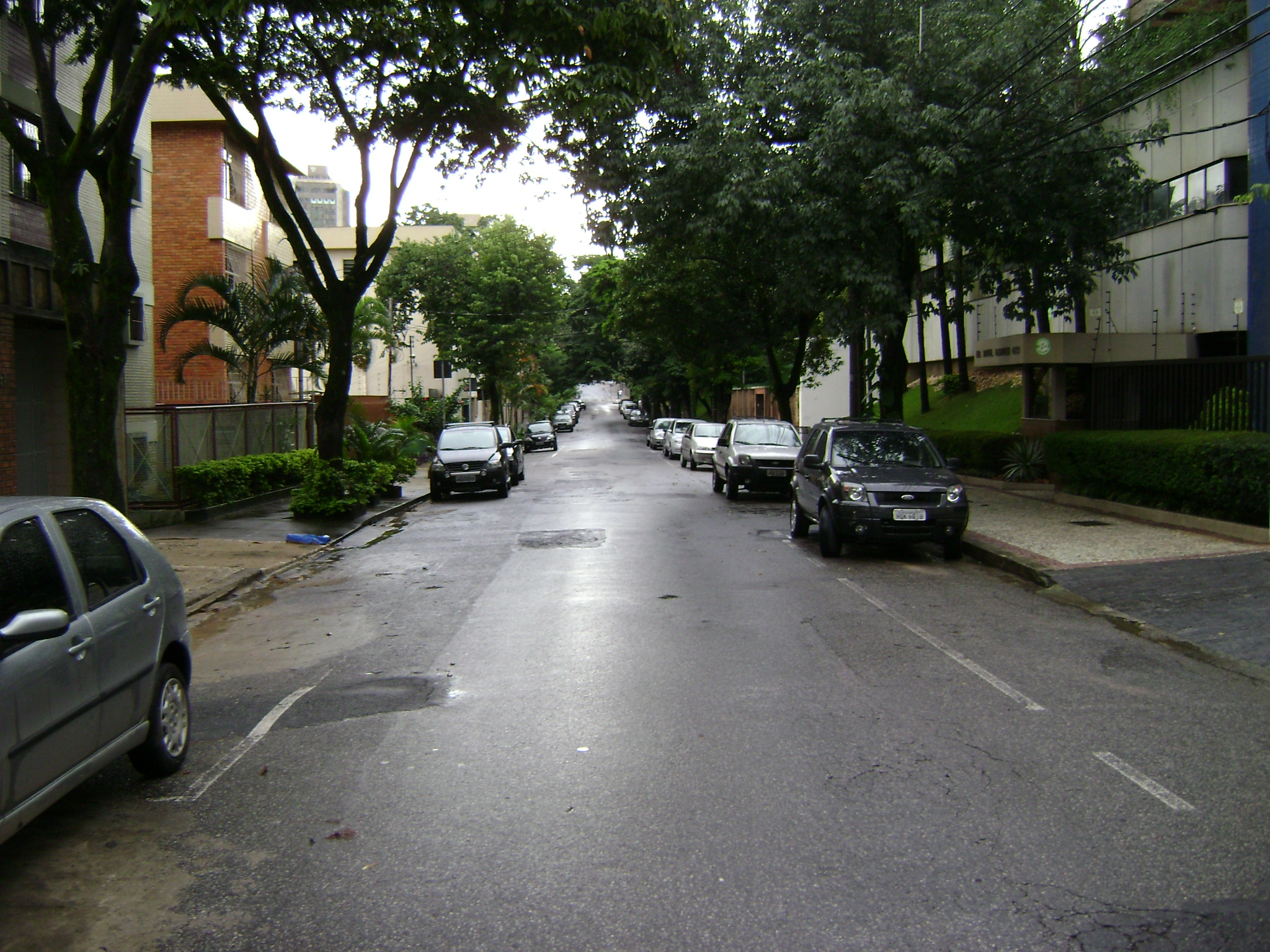 Rua Albita no bairro Cruzeiro